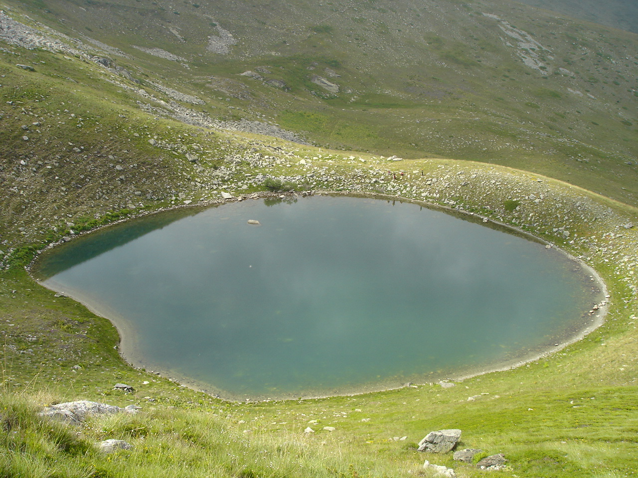 Smaller Lake of Pelister's Eyes lakes, Macedonia